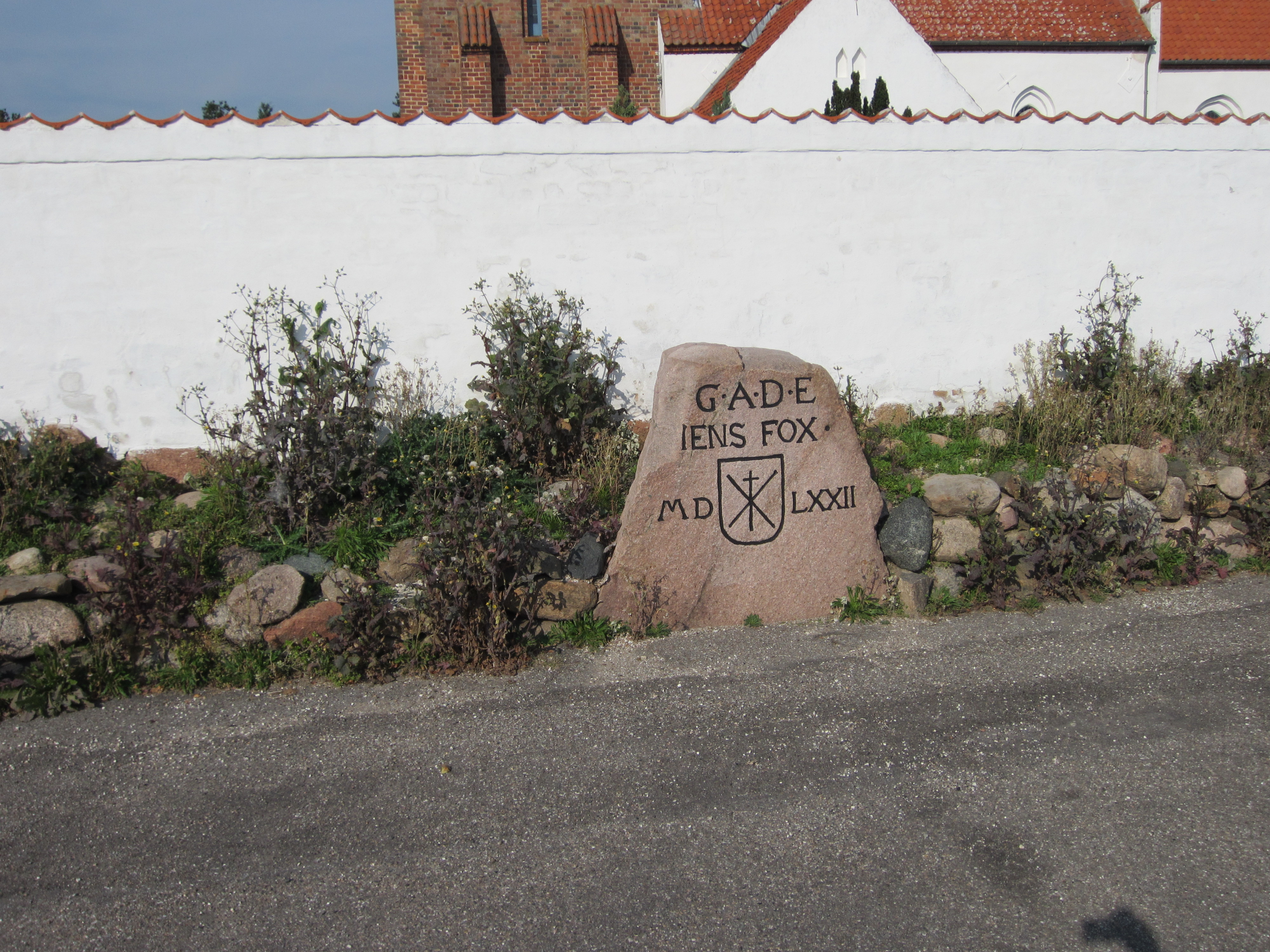 "Jens Fox" stone dated 1500 -1535 ADDansk: Jens Fox stenen fra Gundsømagle.